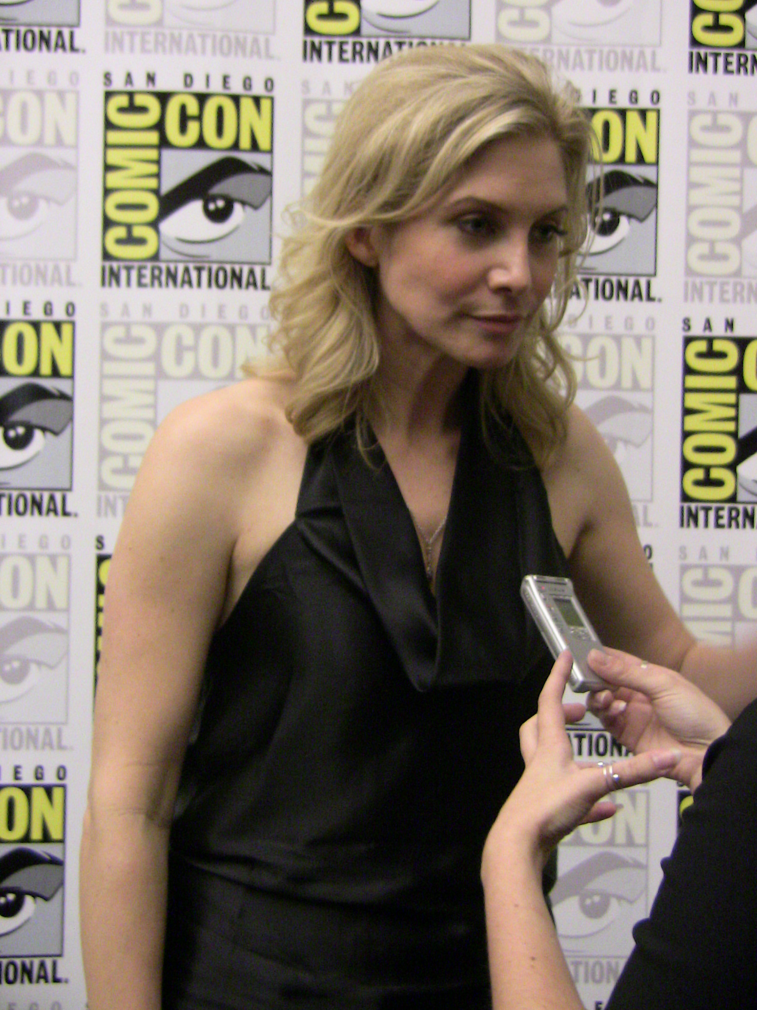 Actress Elizabeth Mitchell – Comic-Con 2009 - V - San Diego, Calif. - July 25, 2009.